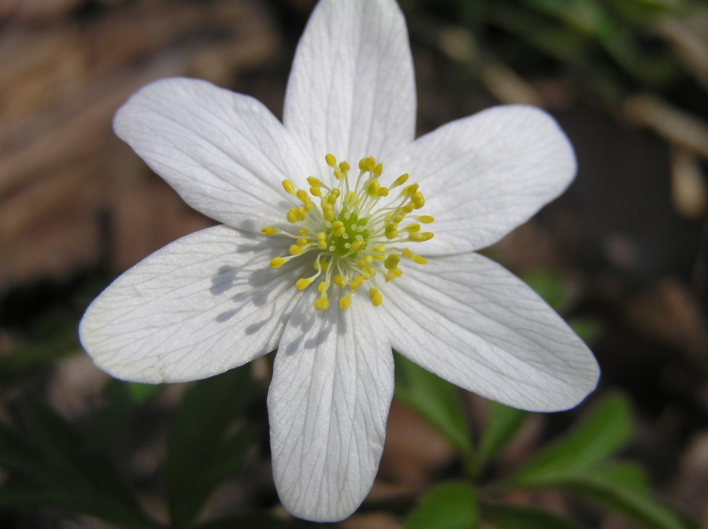 Anemone nemorosa, between Choceň and Brandýs nad Orlicí, Czech Republic